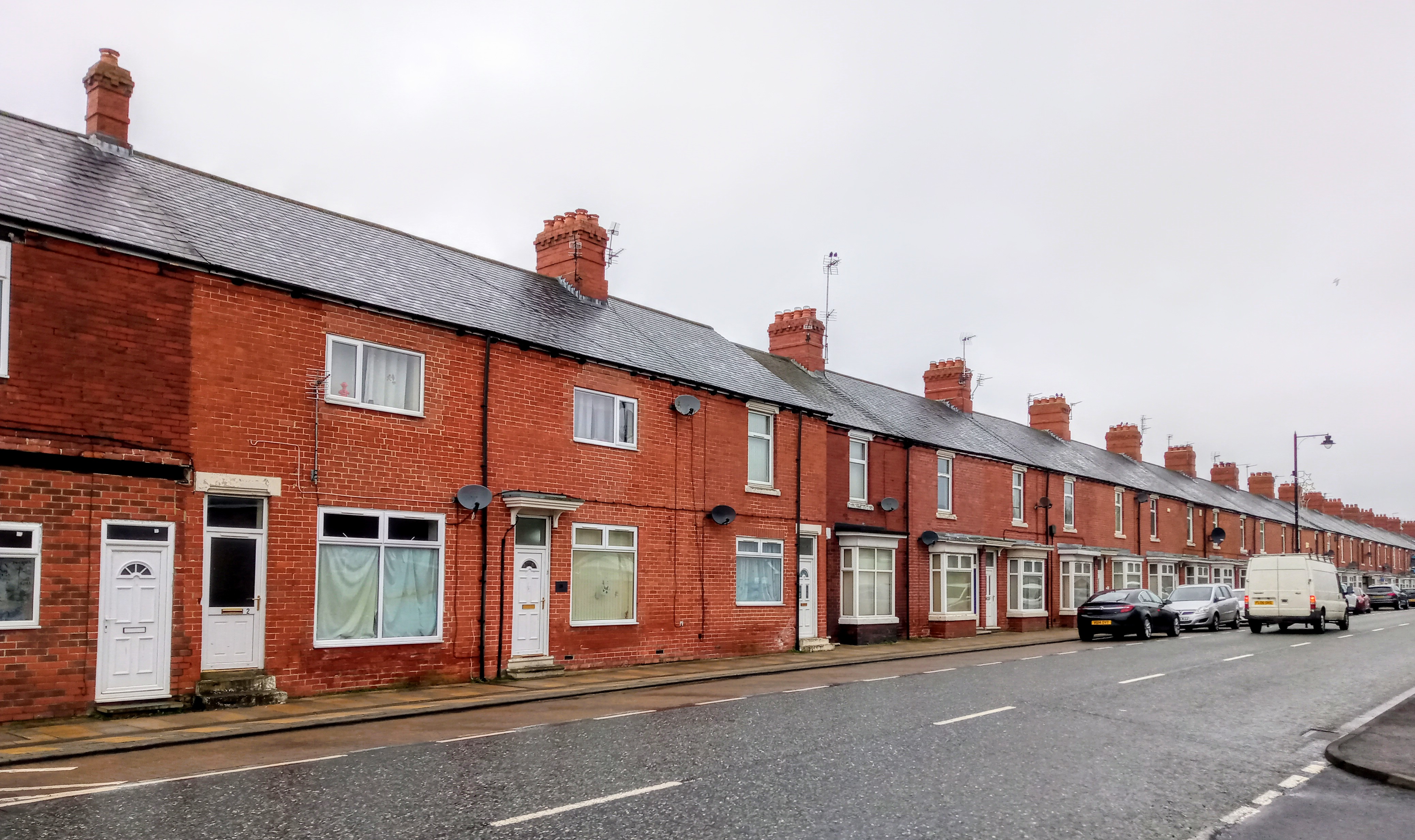 Chilton